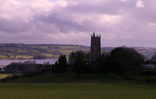 St Andrew's Church and Blagdon Lake